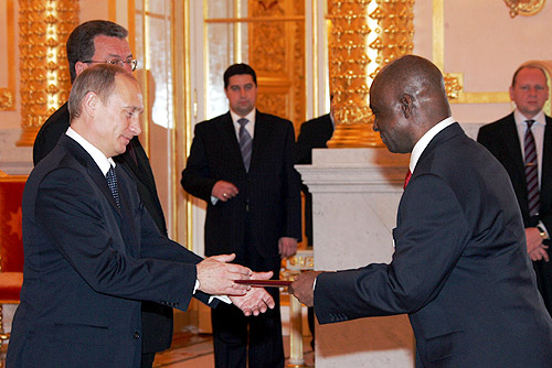 ALEXANDER HALL, GRAND KREMLIN PALACE. Ambassador of the Democratic Republic of Congo Moise Kabaku Muchail presents his letter of credentials.